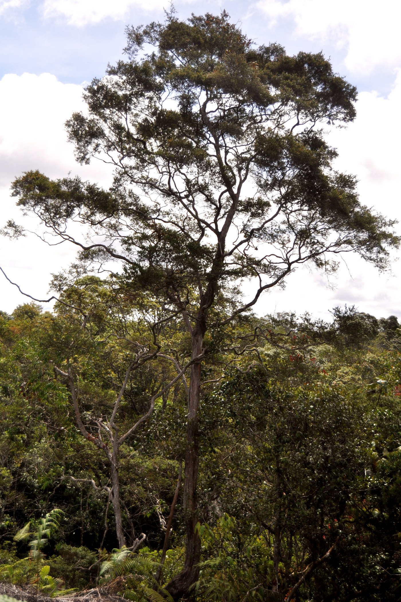 Leptospermum javanicum (syn. L. amboinense) treelet, ca. 10 m high. North Sumatra, Indonesia. Alt. 1453 m asl.